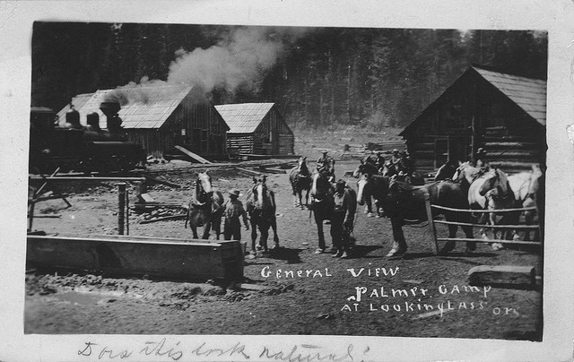 The Palmer Camp at Lookingglass, Oregon, now an unincorporated community in Douglas County, Oregon